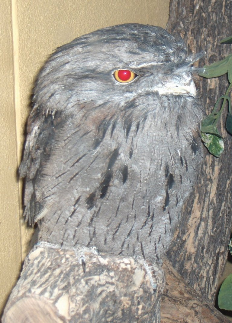 Tawny Frogmouth (Podargus strigoides) in Denver Zoo